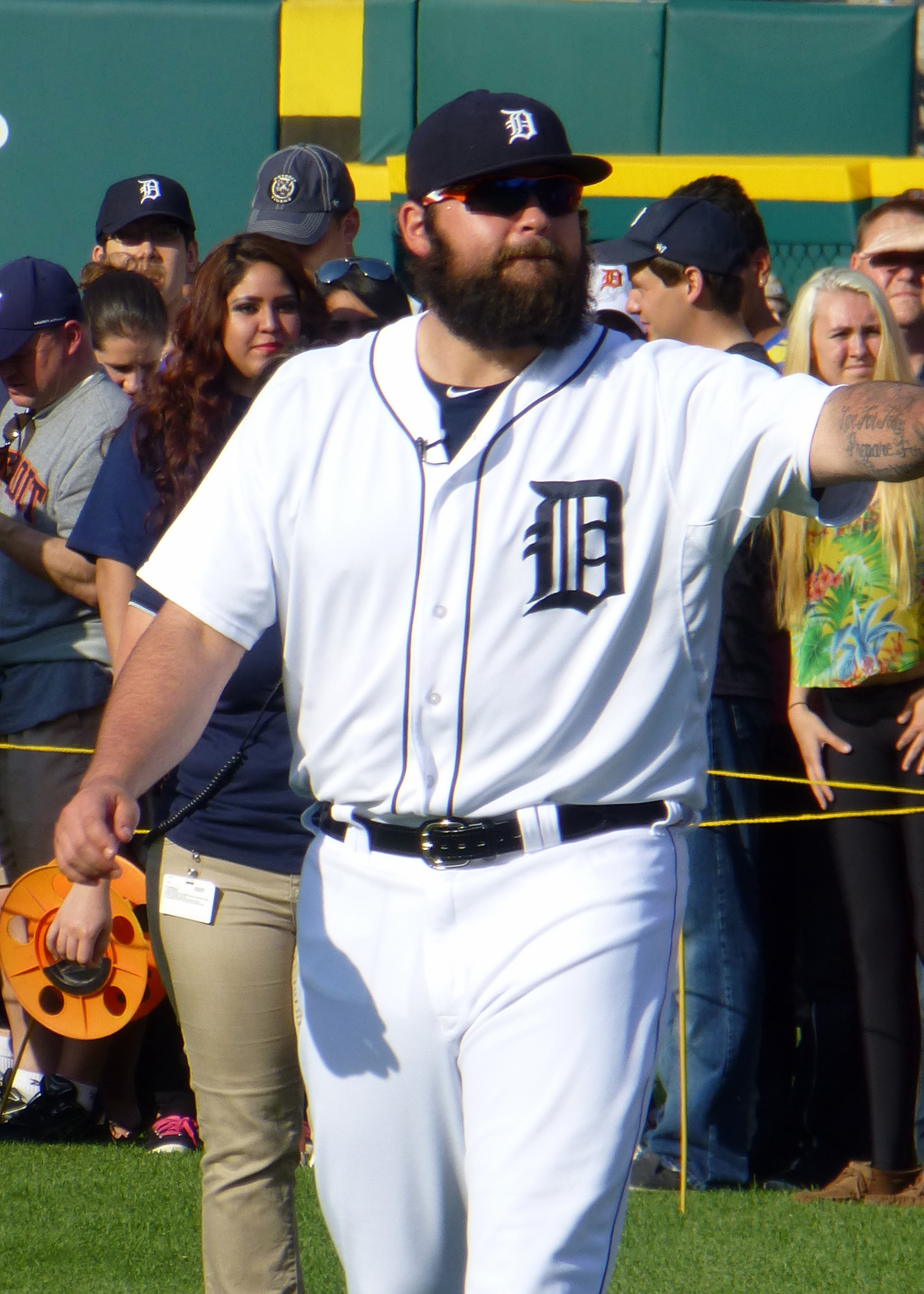 Joba Chamberlain in 2014